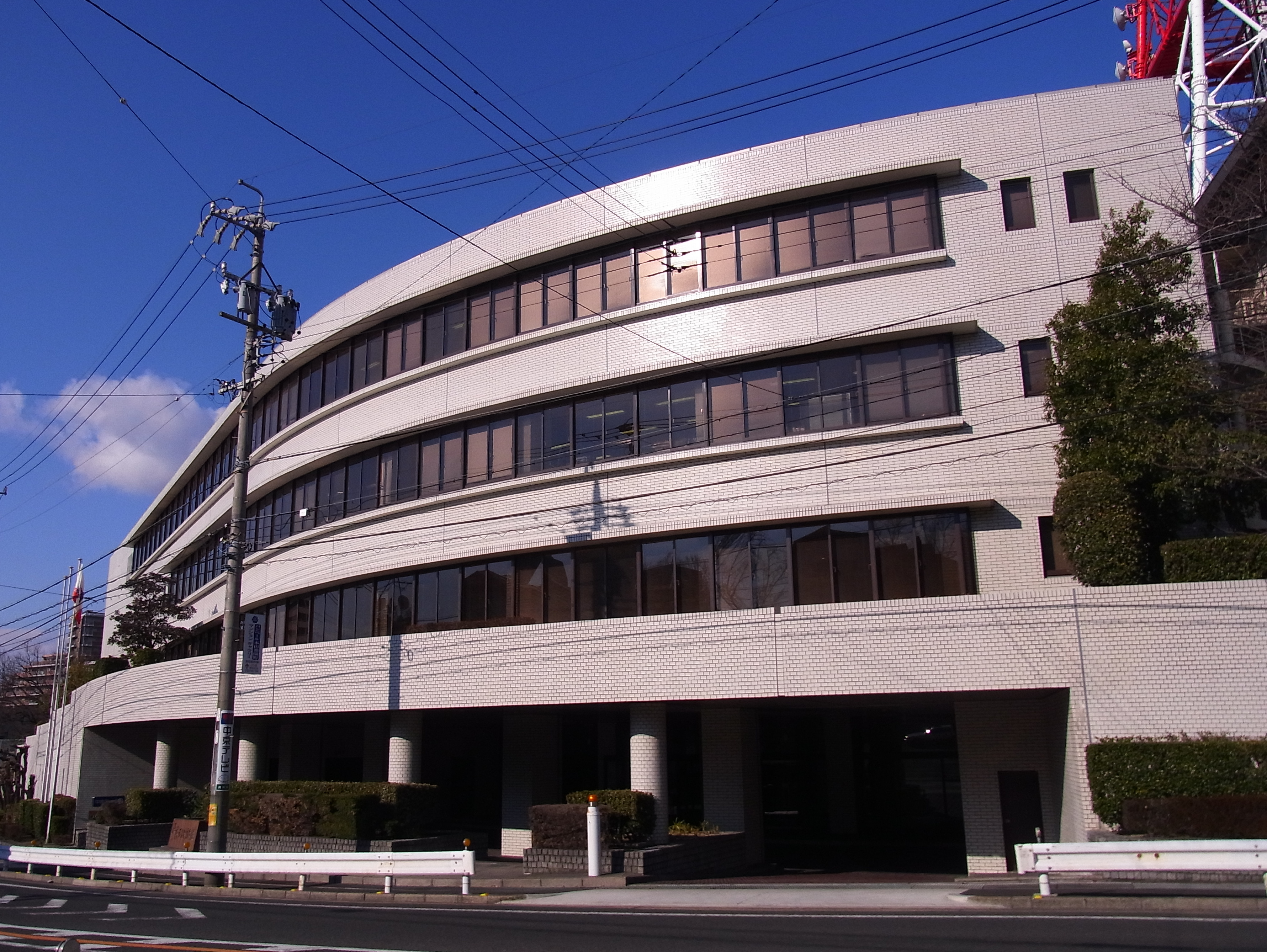 Chukyo Television Broadcasting former head office in Showa-ku, Nagoya City.